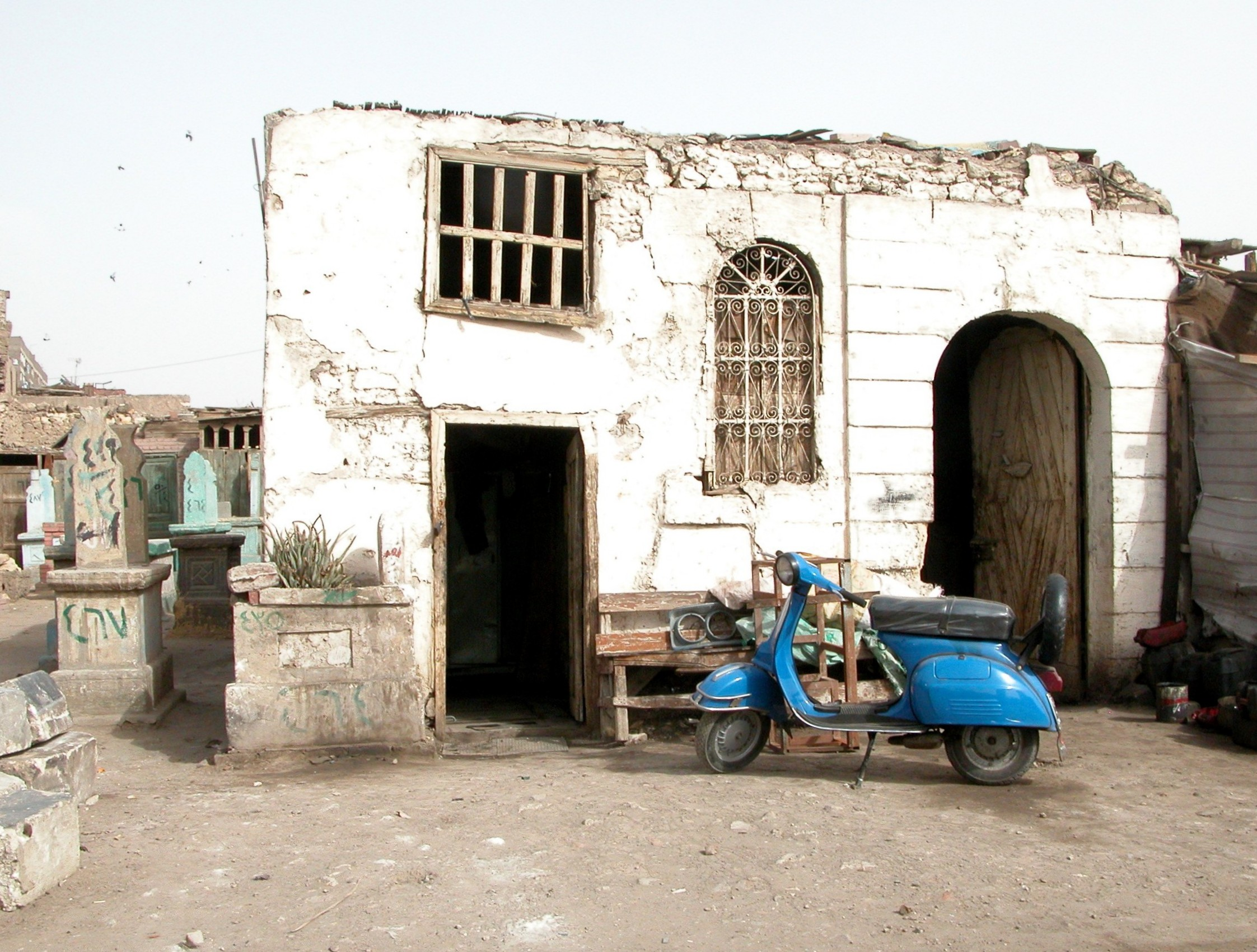 A tomb retrofitted as a residence in the City of the Dead, Cairo, Egypt.